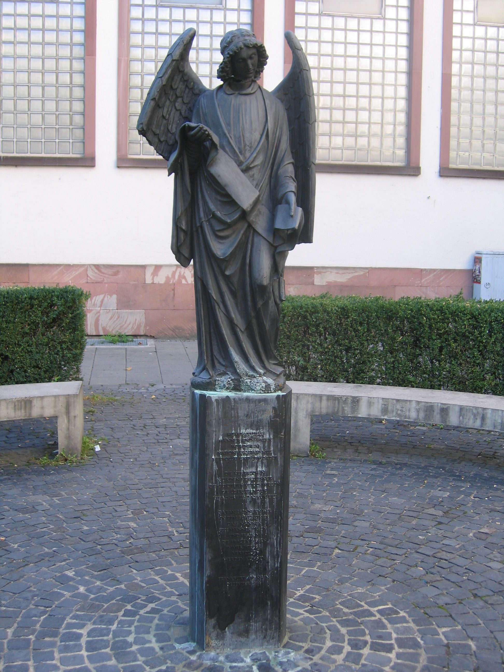 The Frankfurter Engel monument by Rosemarie Trockel in Frankfurt am Main, 1994